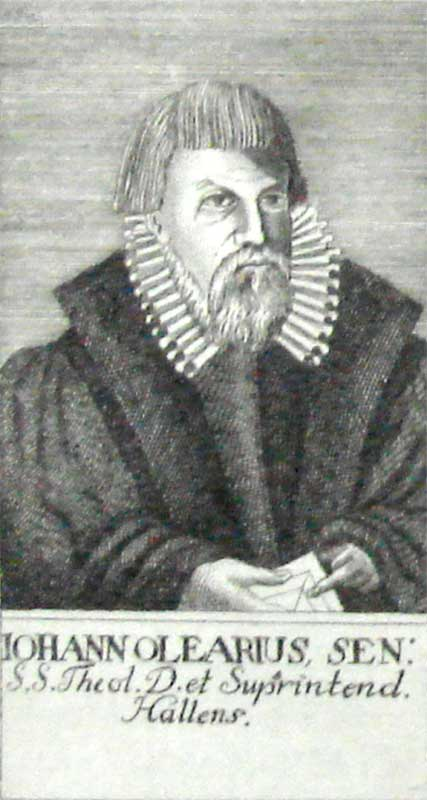 Johannes Olearius I (1546-1623) Protestant theologians from Germany